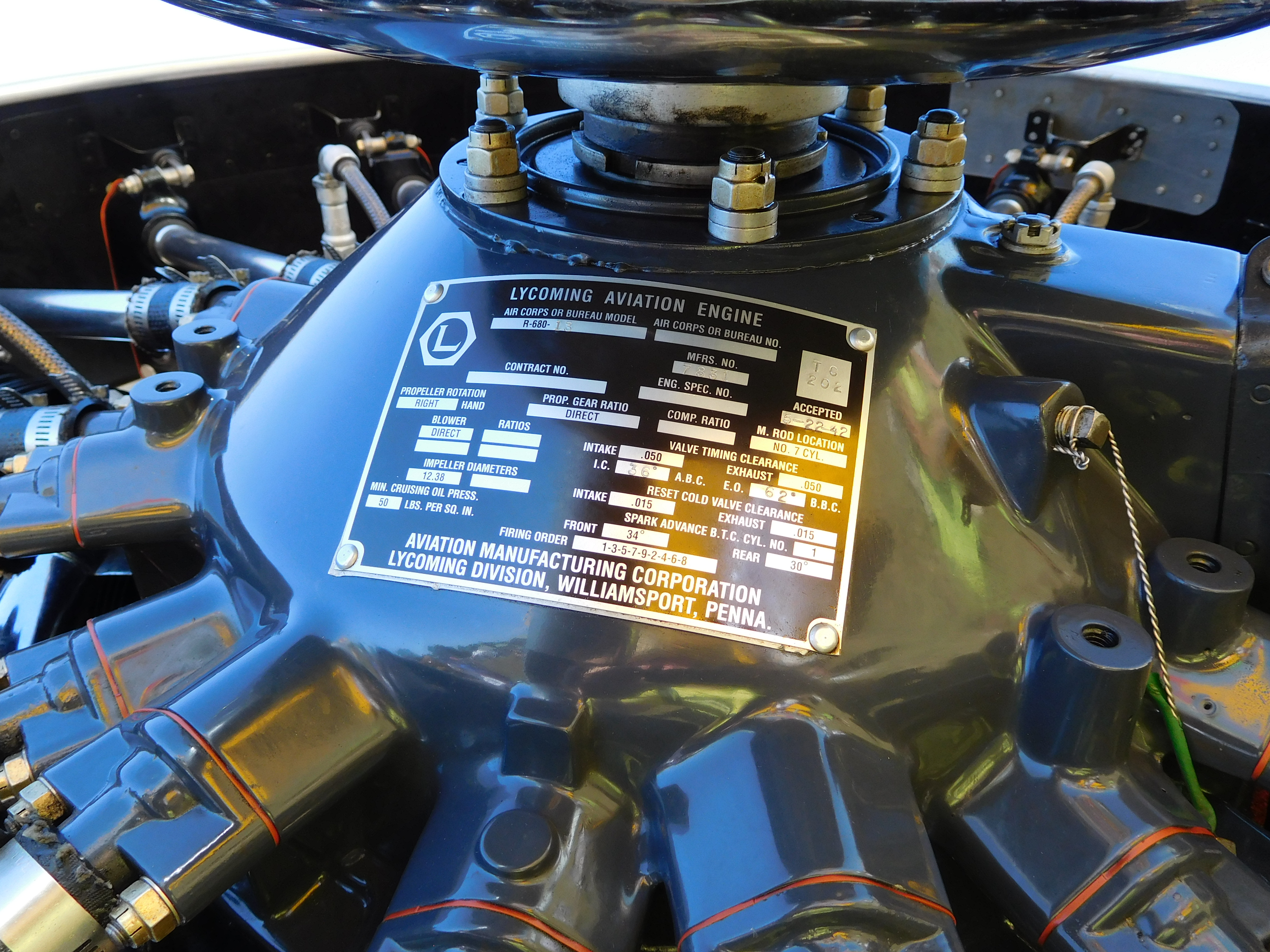 1943 Boeing-Stearman PT-13D (model: E-75), F-AZSQ, c/n: 75-5017 engine. Lycoming R-680-13 (9-cylinder radial engine), displacement: 11 l, power: 300 hp (220 kW) at 2200 rpm, speed: 110 mph.